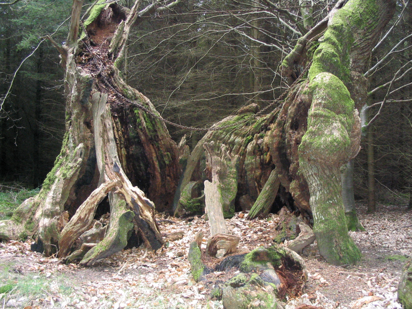 1000-year old Duke's Vaunt oak in Savernake